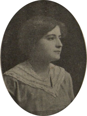 Andrea Fornells, in L'Estiuada magazine of 31.8.1913